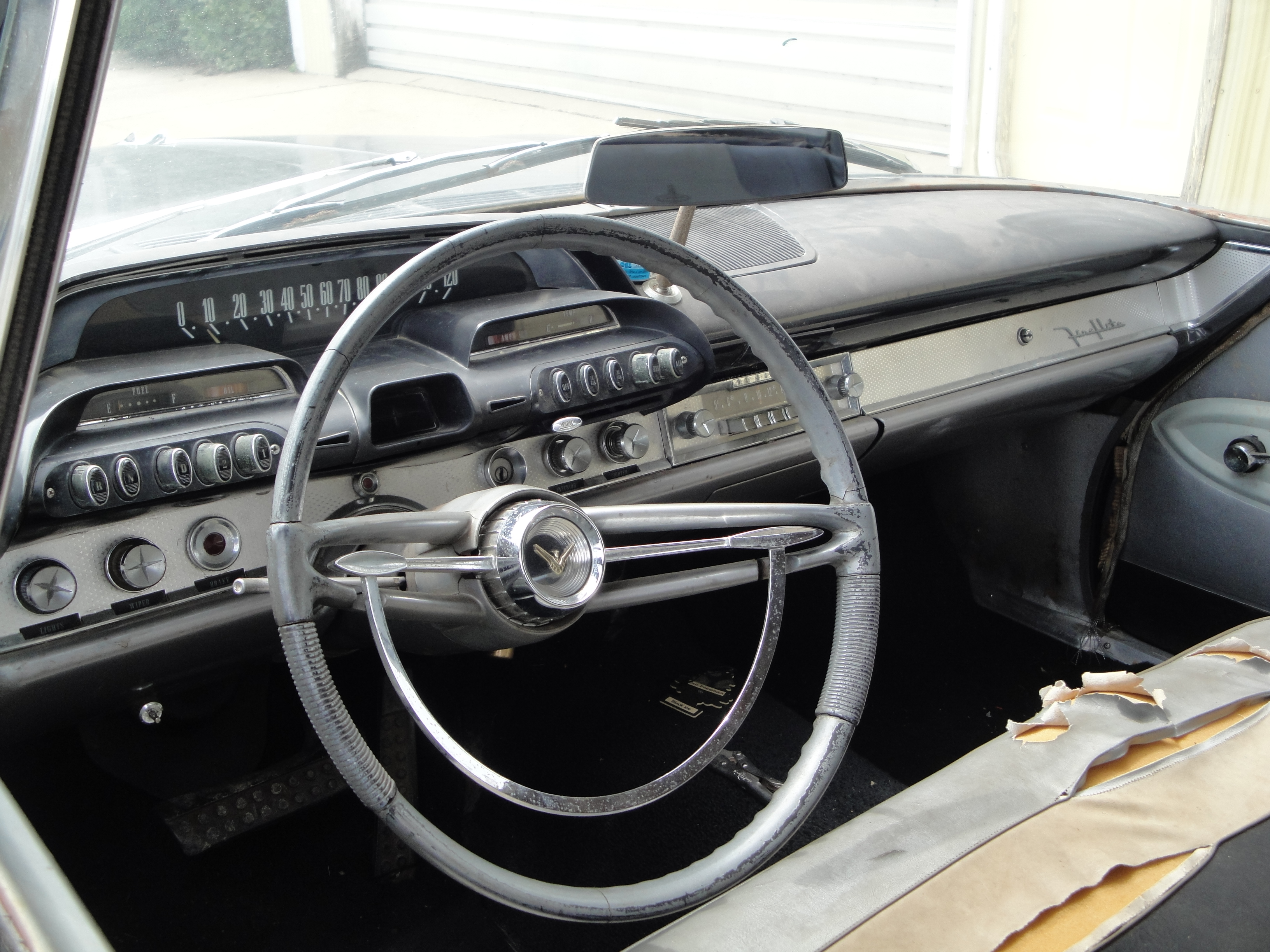 I travelled Up North to my family's cabin to meet a friend that was visiting from California. I spotted some cars along the way and took some shots.